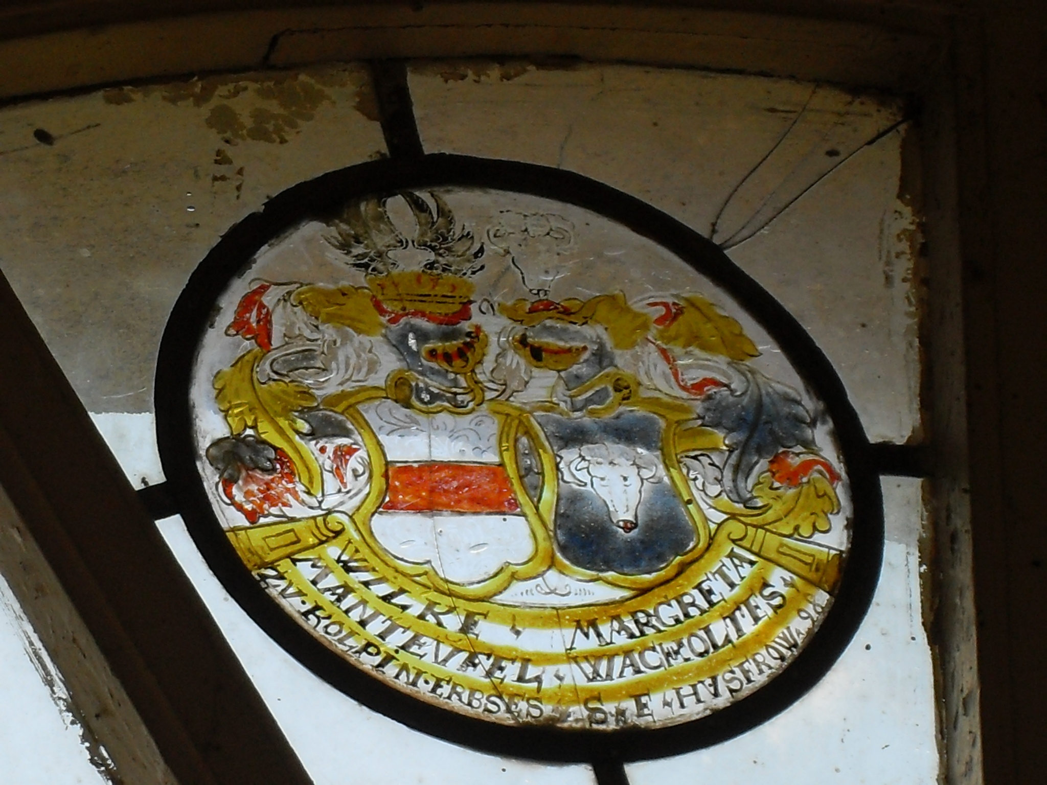 Our Lady of Częstochowa church in Karścino, Poland